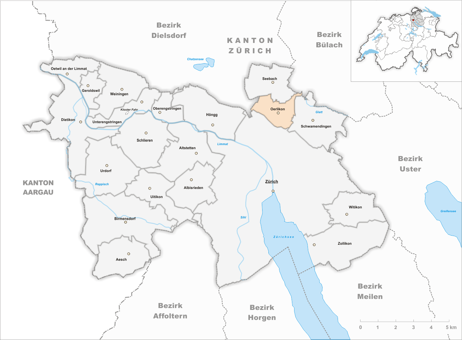 Municipality Oerlikon